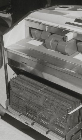 Brunswick Automatic Scorer computer boards for bowling scorekeeping